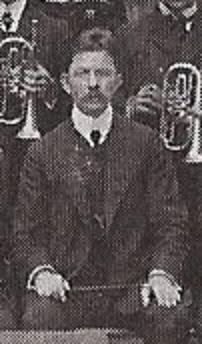 Emanuel Gohle (* 8. September 1867 in Berlin; † 15. Juli 1937 in Berlin) was a new apostolic composer and writer